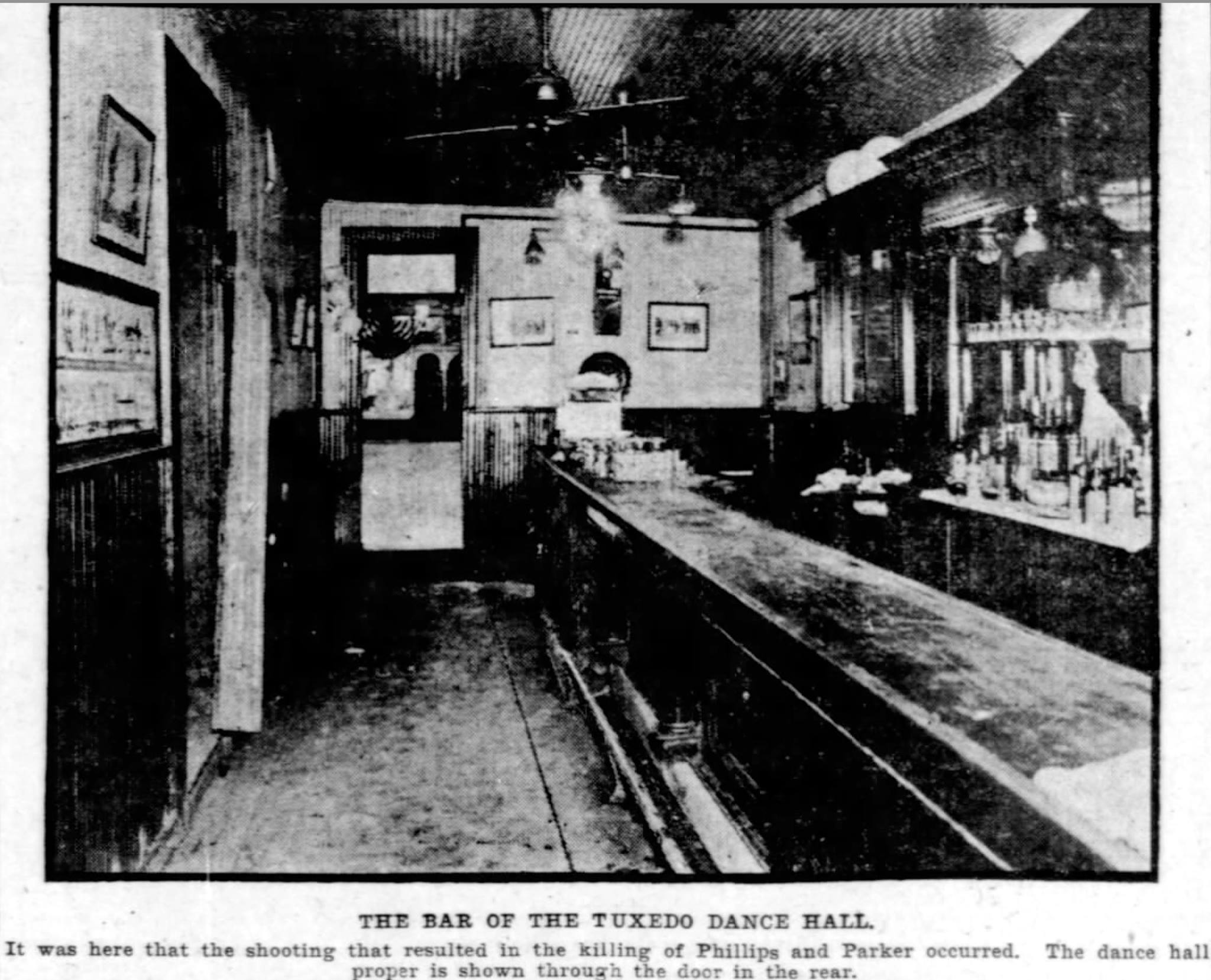 Bar of the Tuxedo Dance Hall, Storyville, New Orleans, March 1913. Published in New Orleans item in wake of notorious shooting at the bar.